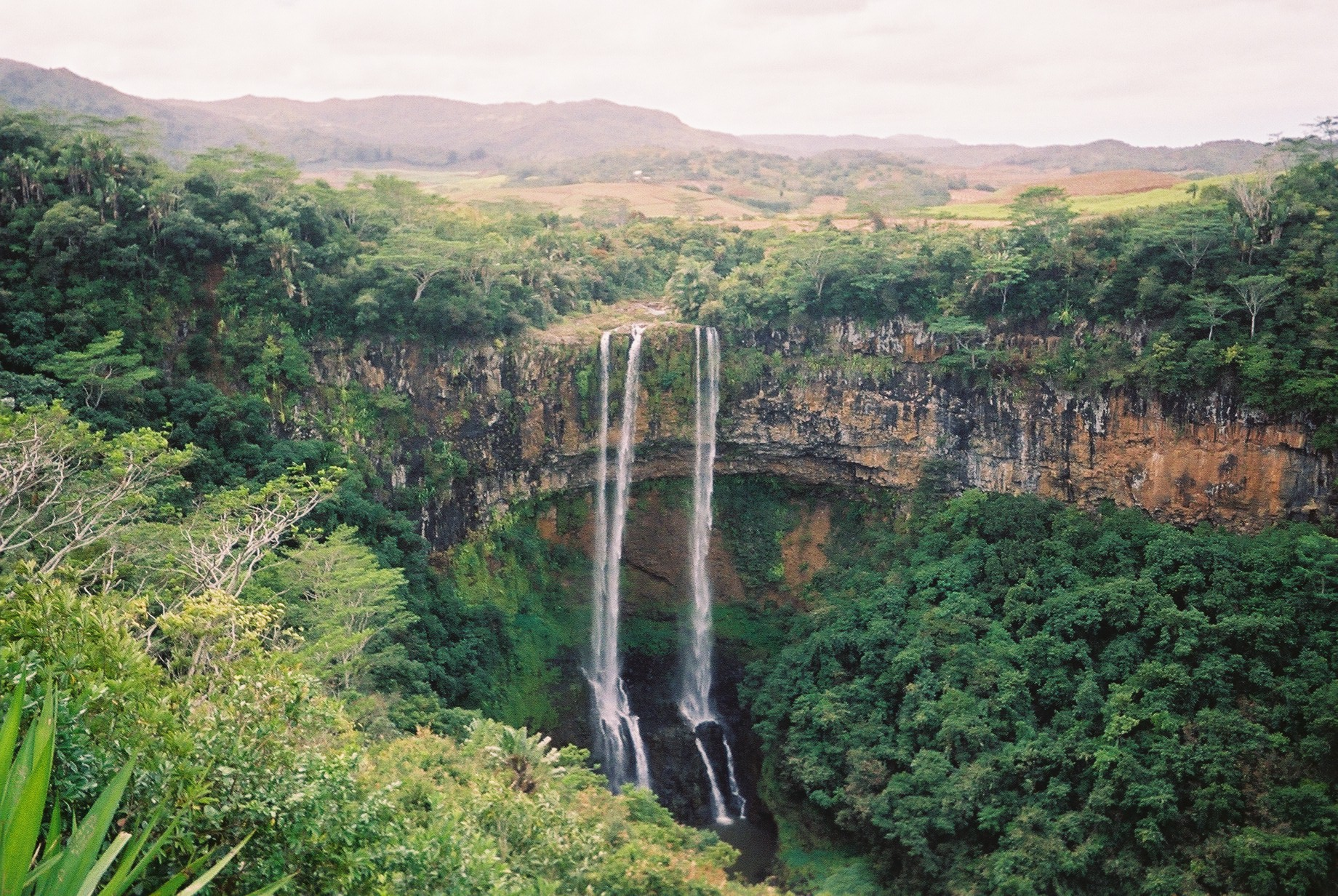 The 83m (272ft) high Chamarel Falls. They are located in Chamarel, Mauritius and fall from the River St Denis in the Black River Mountains and plunge seaward to form the River du Cap. Wooden walkways from the roadway enable closer views of the waterfalls.